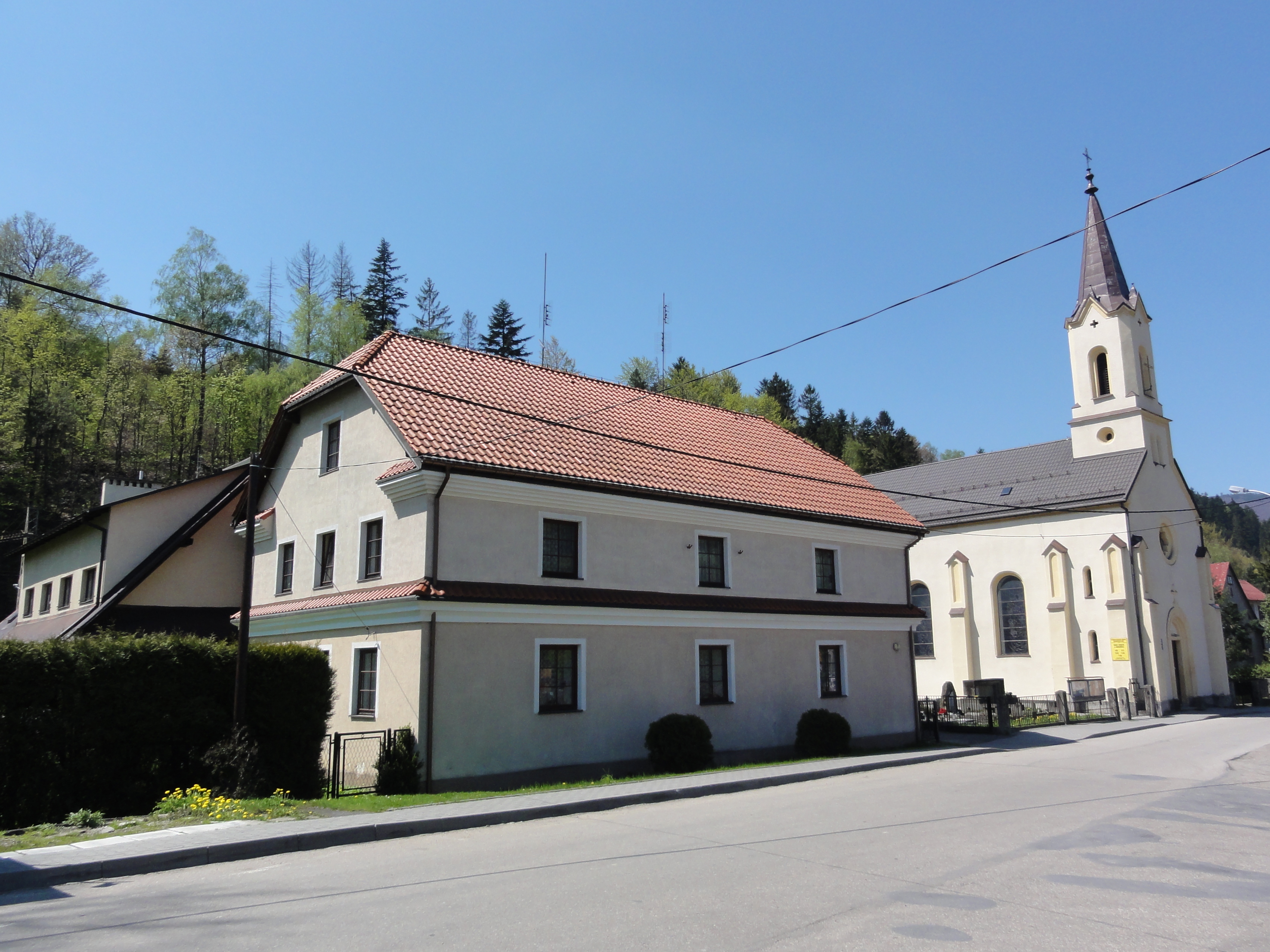 Church and parish of the Assumption of Saint Mary in Wisła